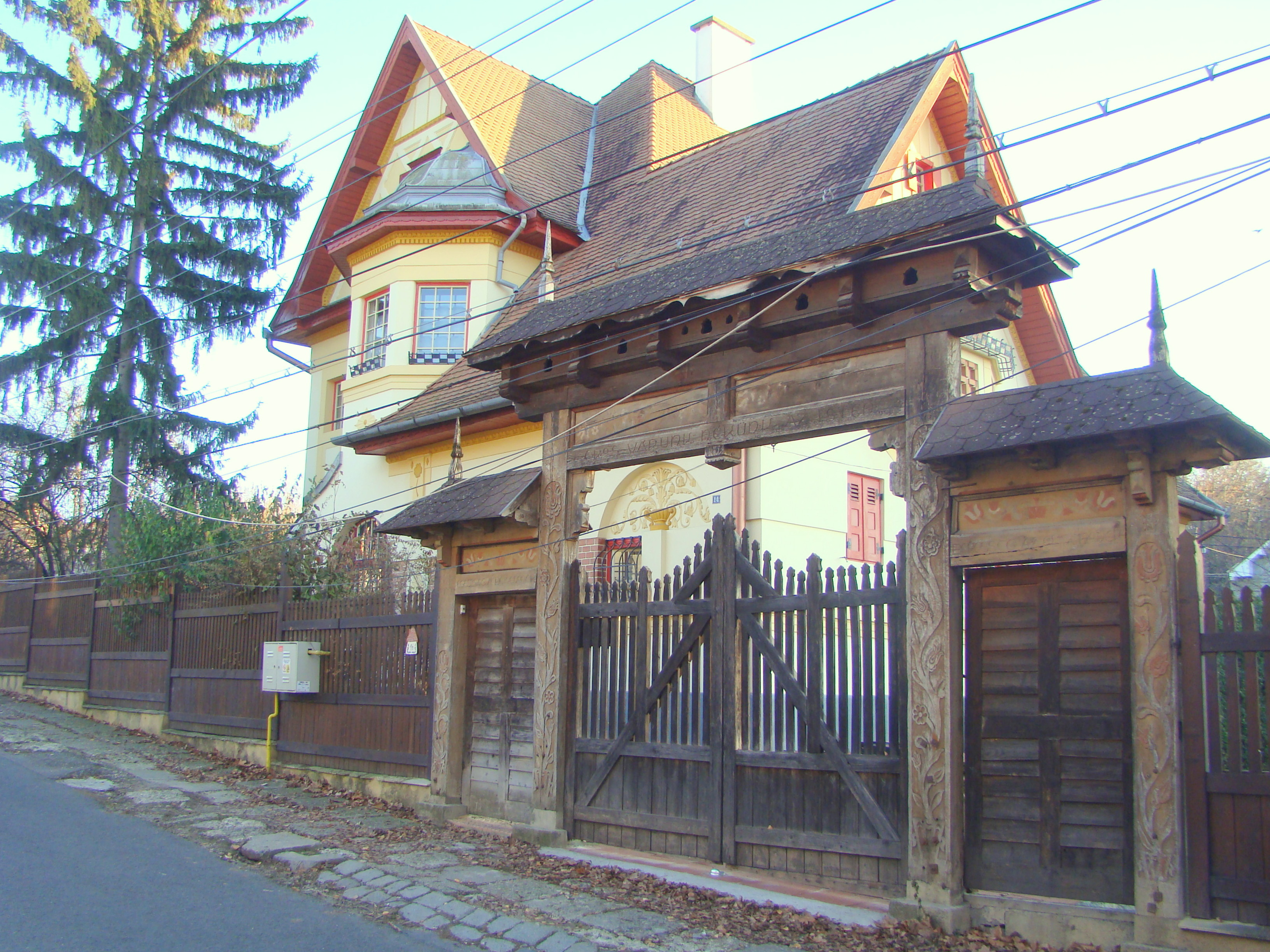 Bustya Lajos house with wooden gate, Târgu Mureș, Mureș county, Romania